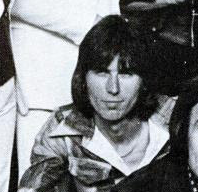 British drummer Cozy Powell.